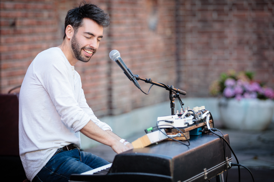 Leif Vollebekk at the Borggården stage in the Vigeland Park. The concert was part of Piknik i Parken and took place on 16. June 2018 in Oslo. Lineup:Leif Vollebekk (guitar and keyboard)